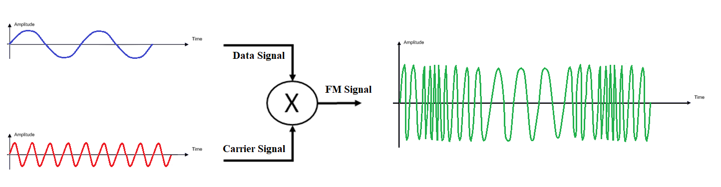 The modulation of an analog signal into an analog carrier using Frequency modulation (FM).